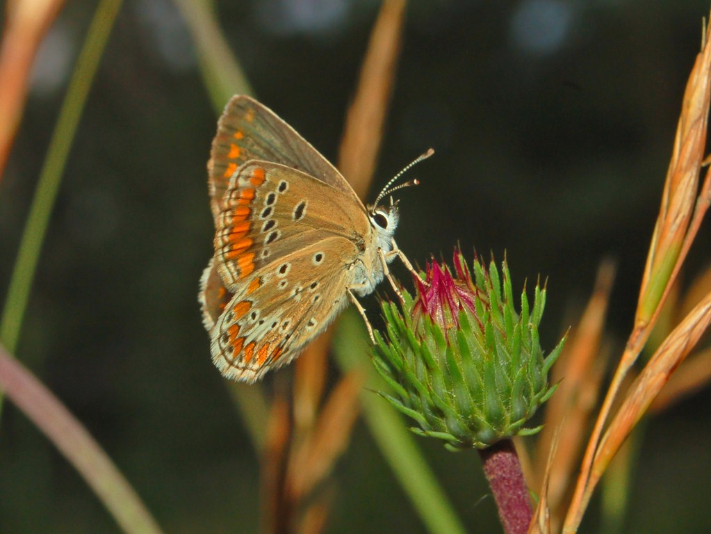 Lycaenidae - Aricia agestis